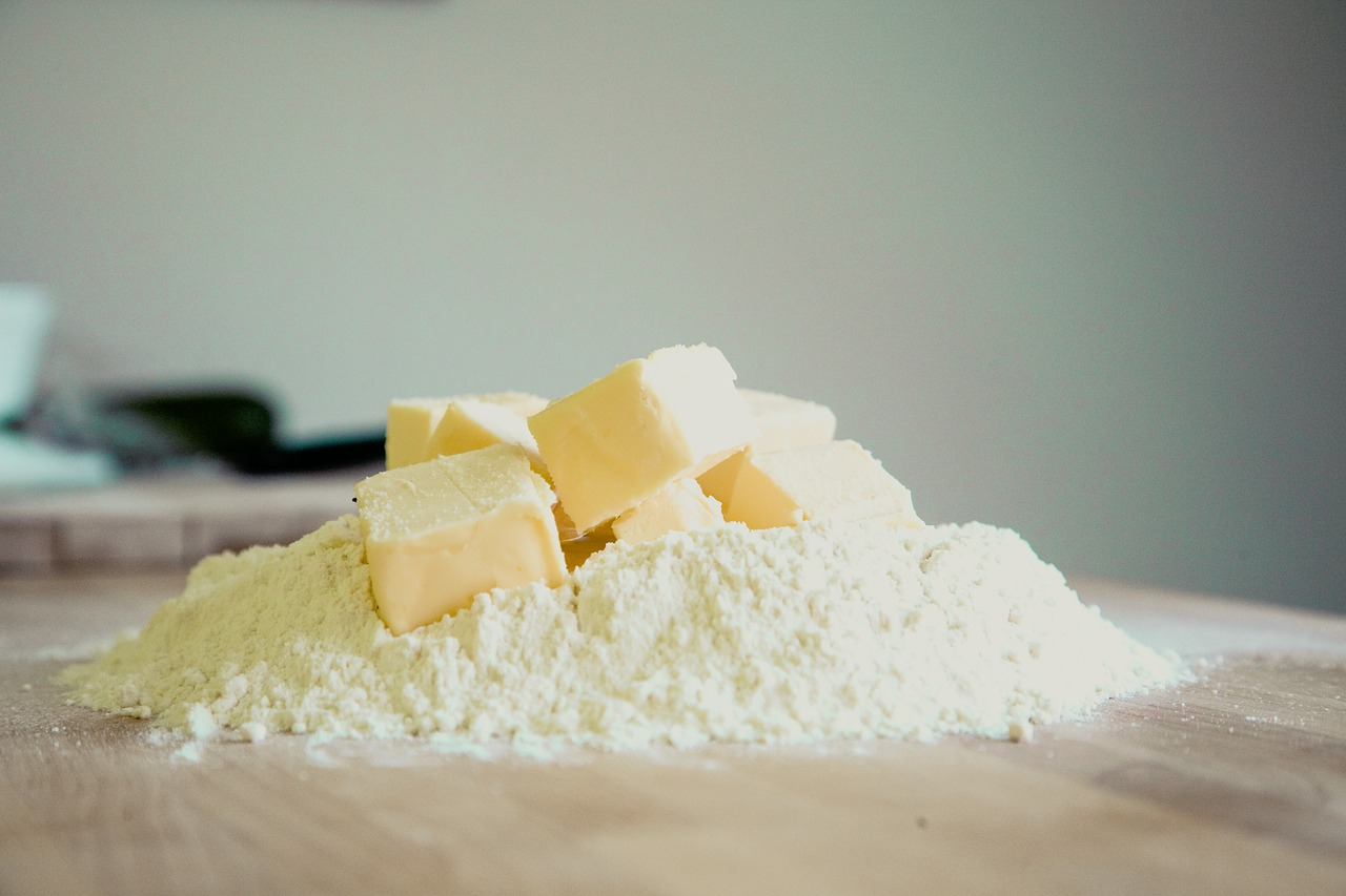 A pile of flour and cubes of butter. Ready for making pasty. Ingredients for baking.